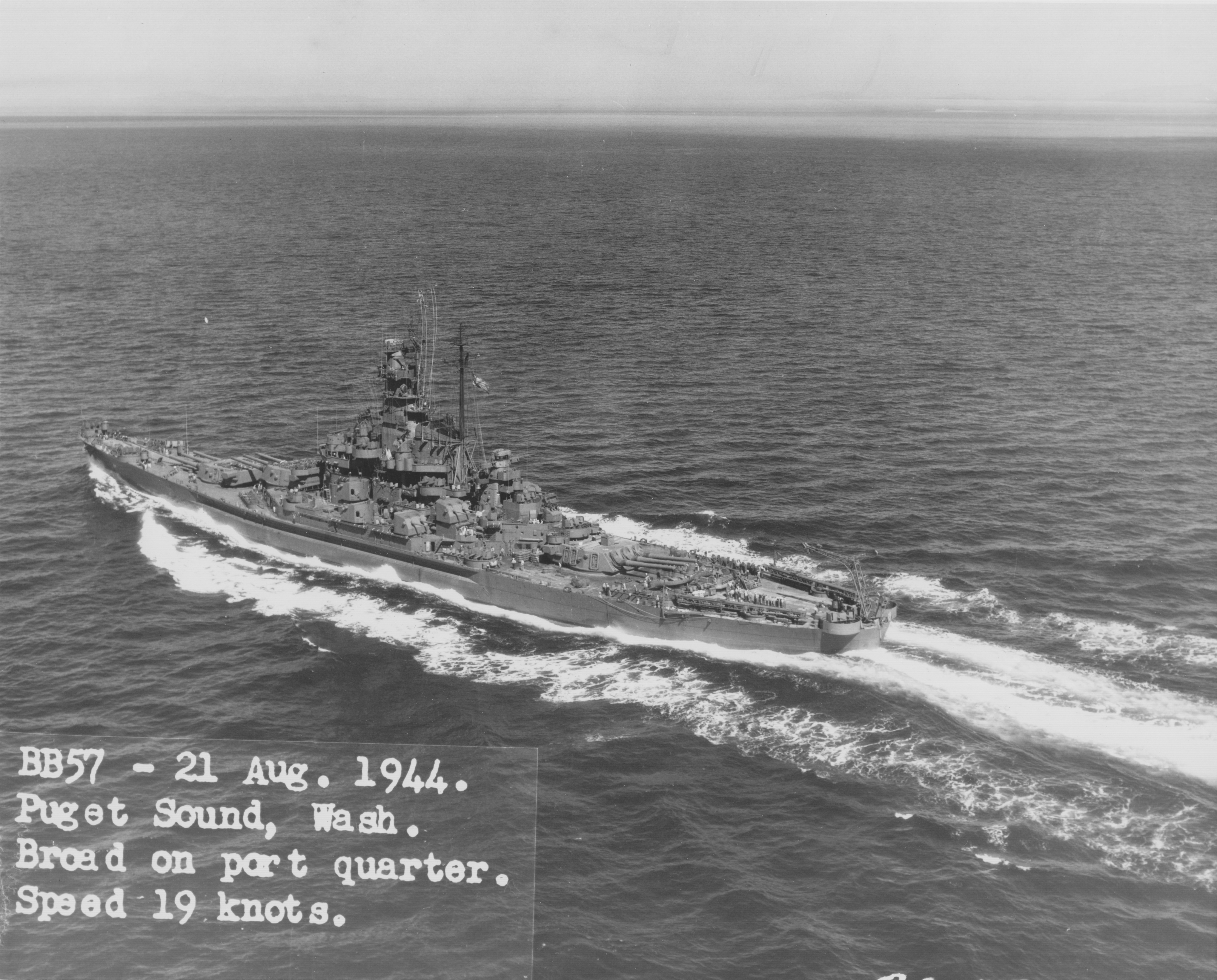 Aerial view of the USS South Dakota in Puget Sound. Box: 19LCM, BB-57, BN204; Folder: BS 70904 - 70916 BS 70906